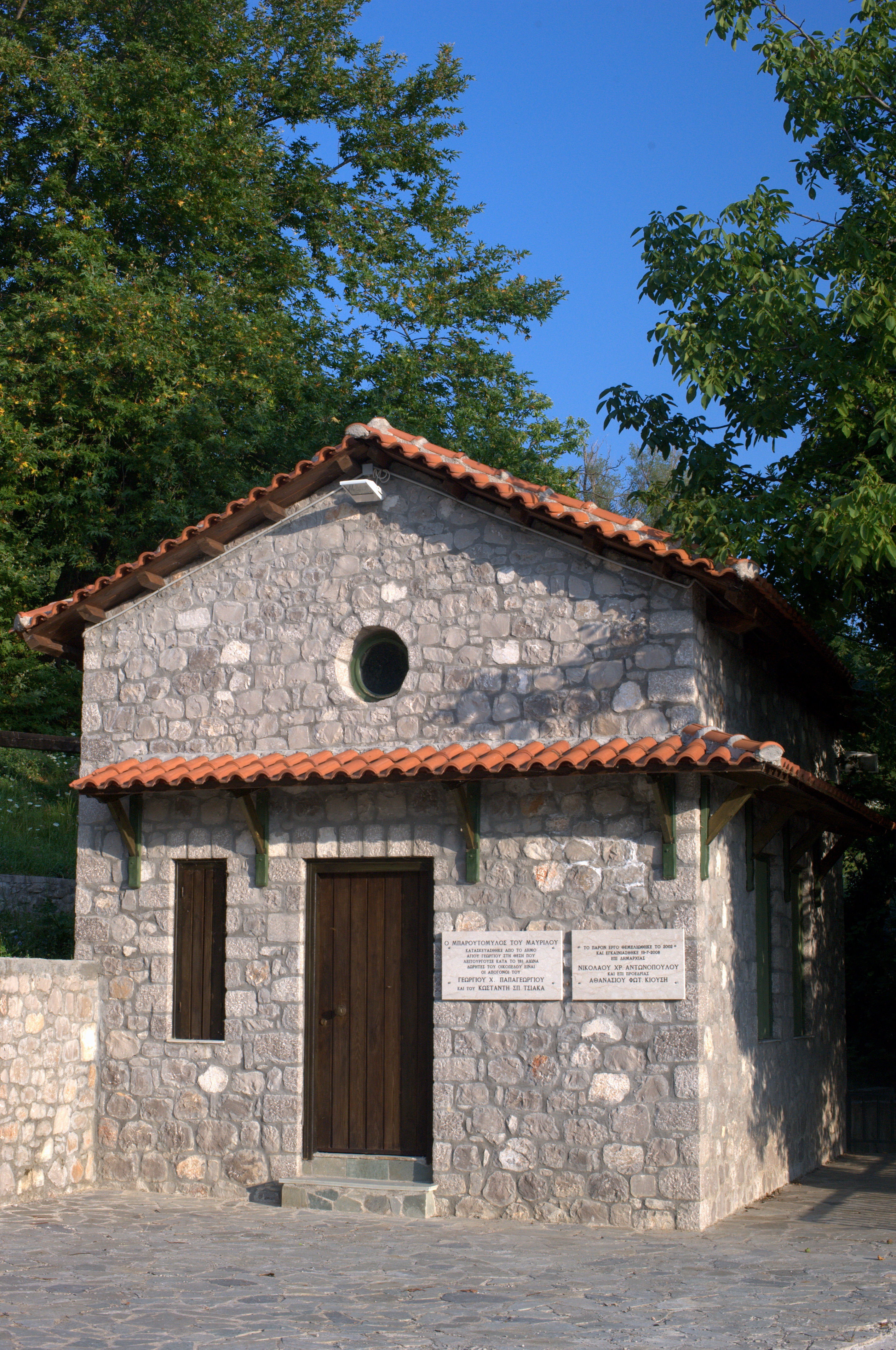 Traditional old gun power water mill, Mavrilo, Fthiotida, Greece.